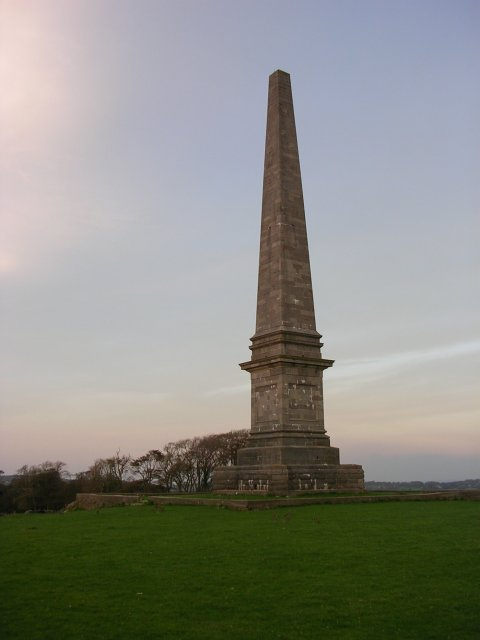 Bulkeley Memorial. A large and imposing memorial above the town of Beaumaris. It bears no inscription or other information. Erected about 1875, about 90ft high. Built in memory of Sir Richard Bulkeley Williams 1801-1875.